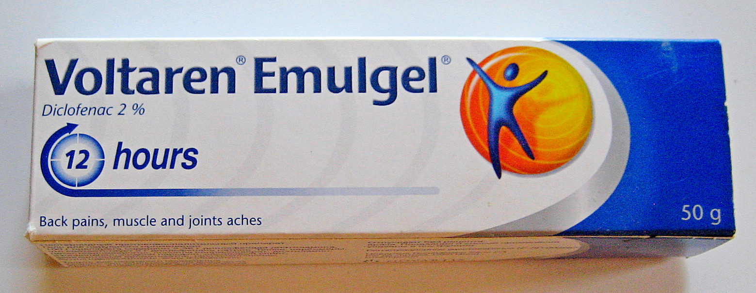 Diclofenac 2%